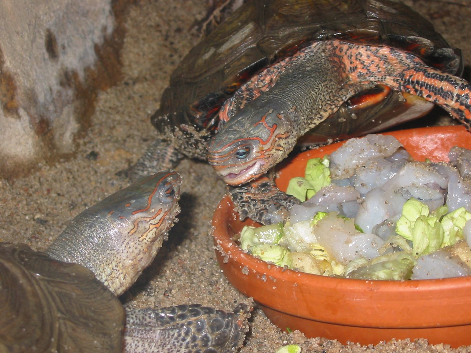 Turtle, Rhinoclemmys pulcherrima incisa, Zoo Berlin, Germany